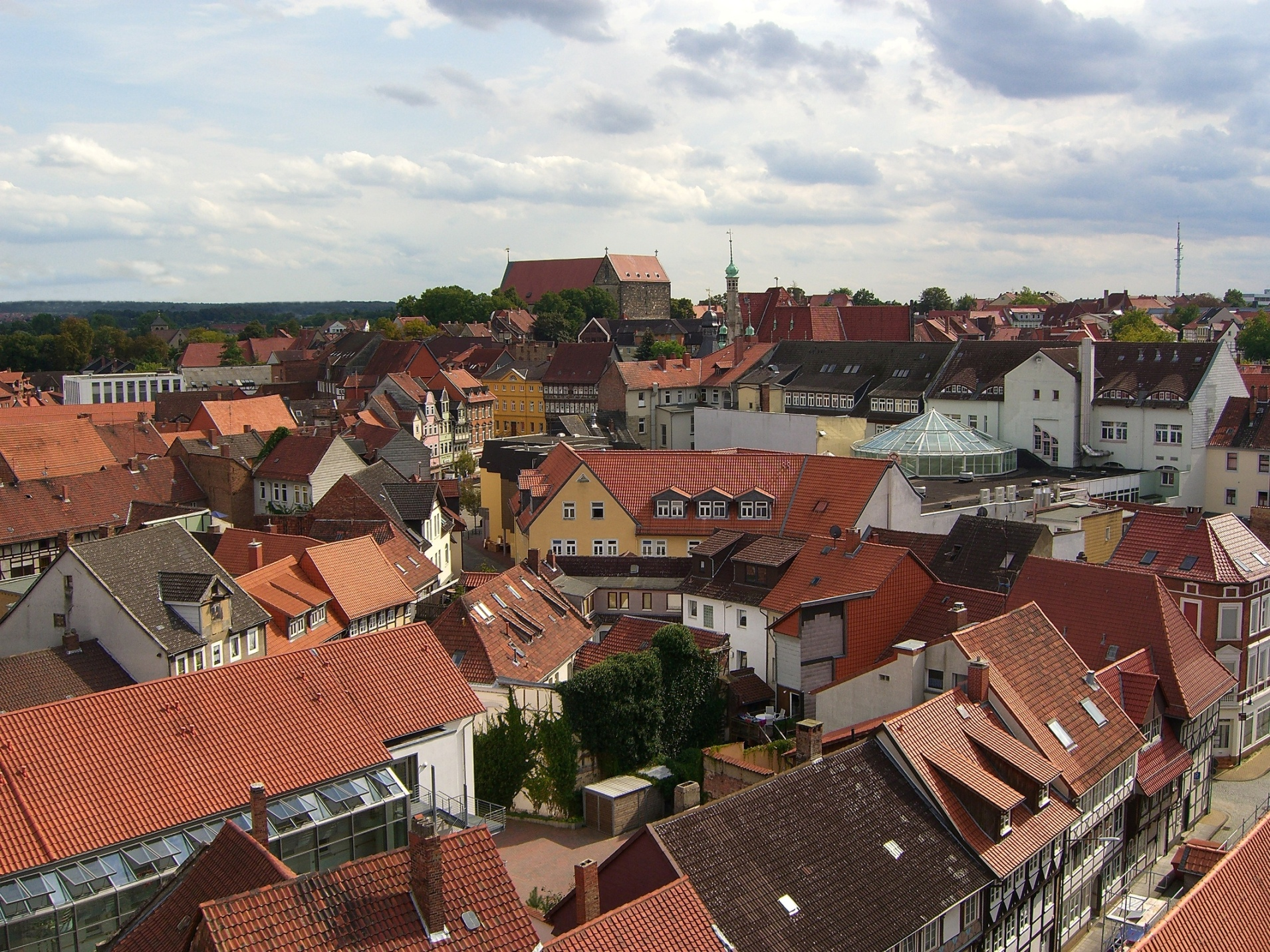 Historic city center of Helmstedt. In the center the Gothic church "St. Stephani".